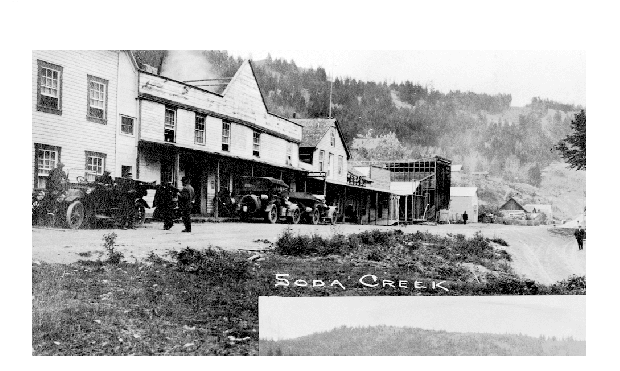 Soda Creek (gold rush town) — on upper Fraser River in British Columbia (1914). Photographer Unknown. Photo taken 1914. Source BC Archives # H-07241 [1]